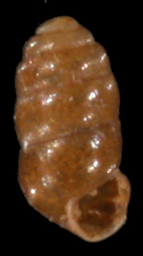 Photo of Vertigo heldi. Locality: Germany: Baden-Württemberg, river deposits near Neckarsteinach. Date: before 1960.